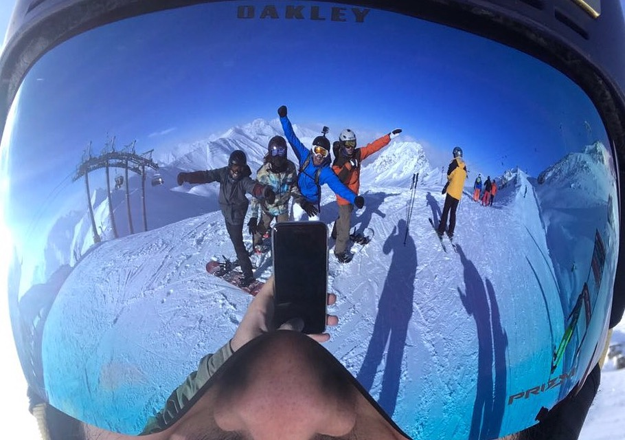 reflection trough ski goggles